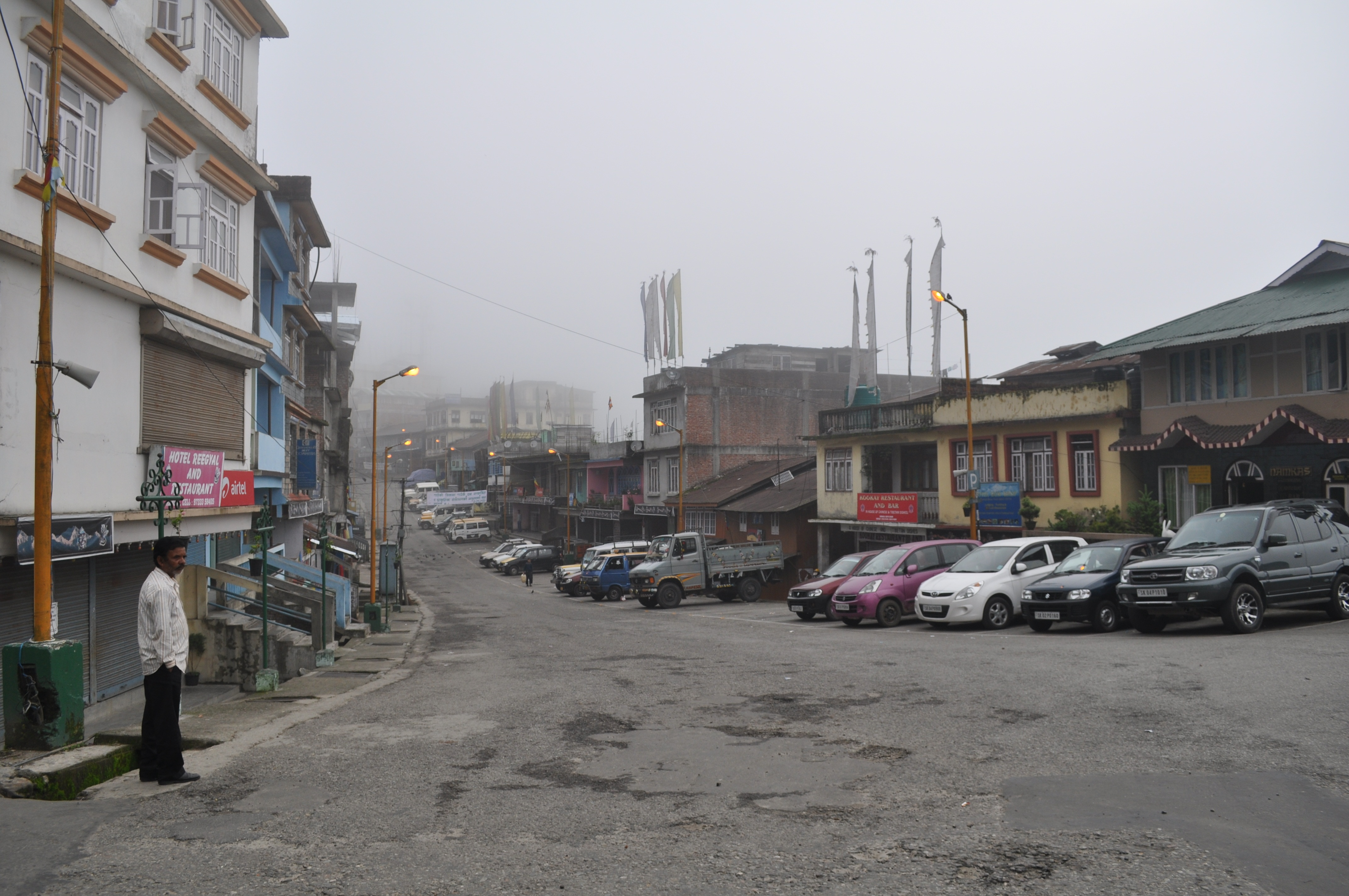 Ravang la sikkim rabong